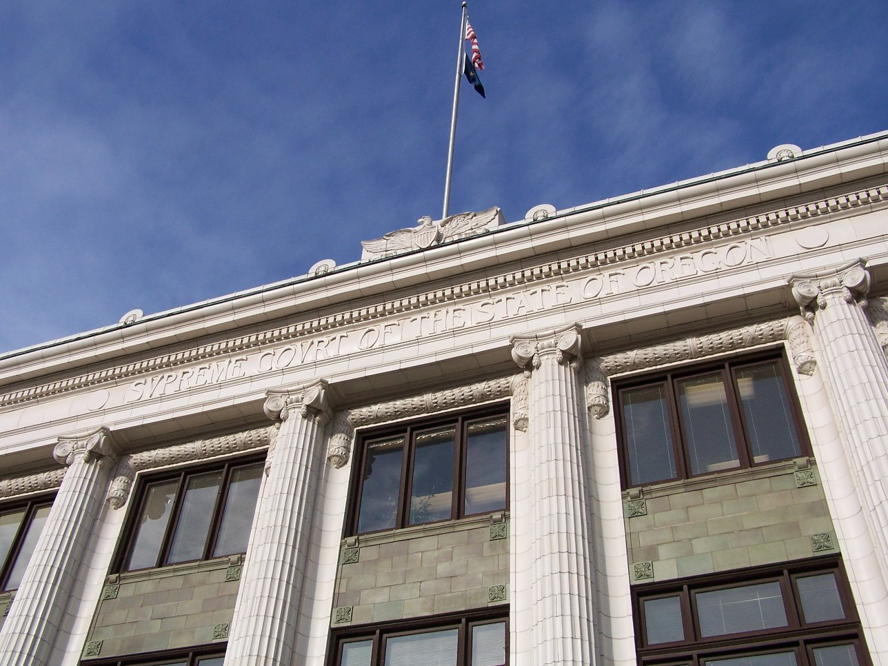 Oregon Supreme Court Building front face